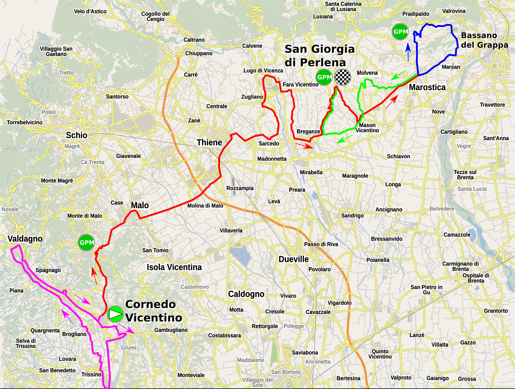 Map of stage 7 from Giro donne 2019